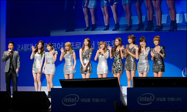 SNSD Visual Dream World Premiere Showcase